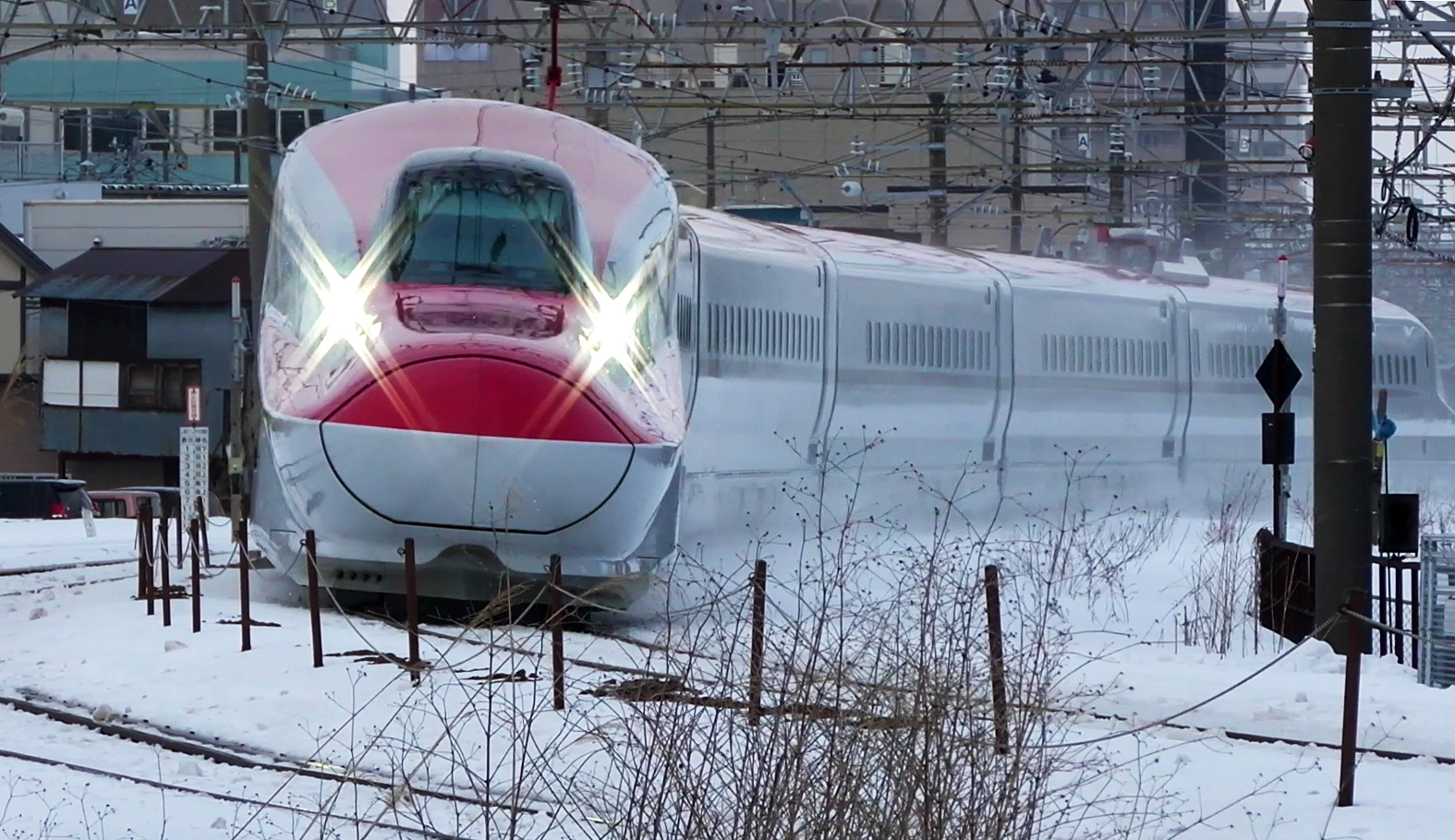 An E6 series shinkansen train near Akita on an Akita Shinkansen Komachi service